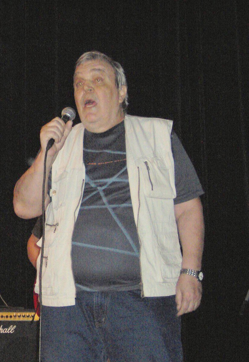 Jan Čarvaš, former bass guitarist and vocalist of czech rock band Synkopy 61, Brno, Czech Republic